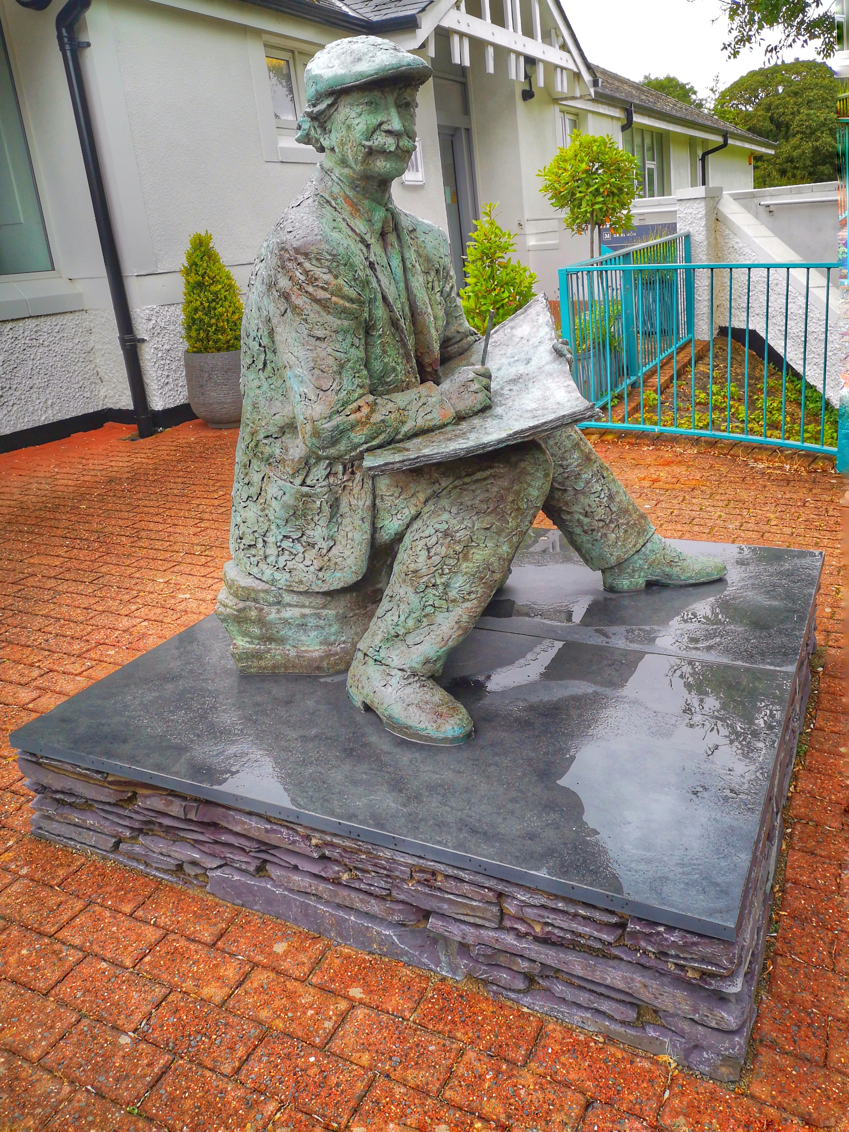 Sir John Kyffin Williams statue outside Oriel Môn near Llangefni on the Isle of Anglesey.